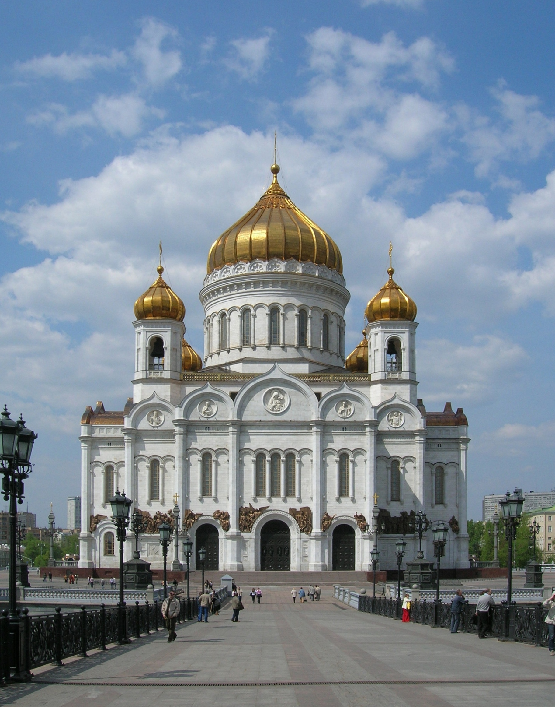 Cathedral of Christ the Saviour over Moscow River. Moscow (Russia).